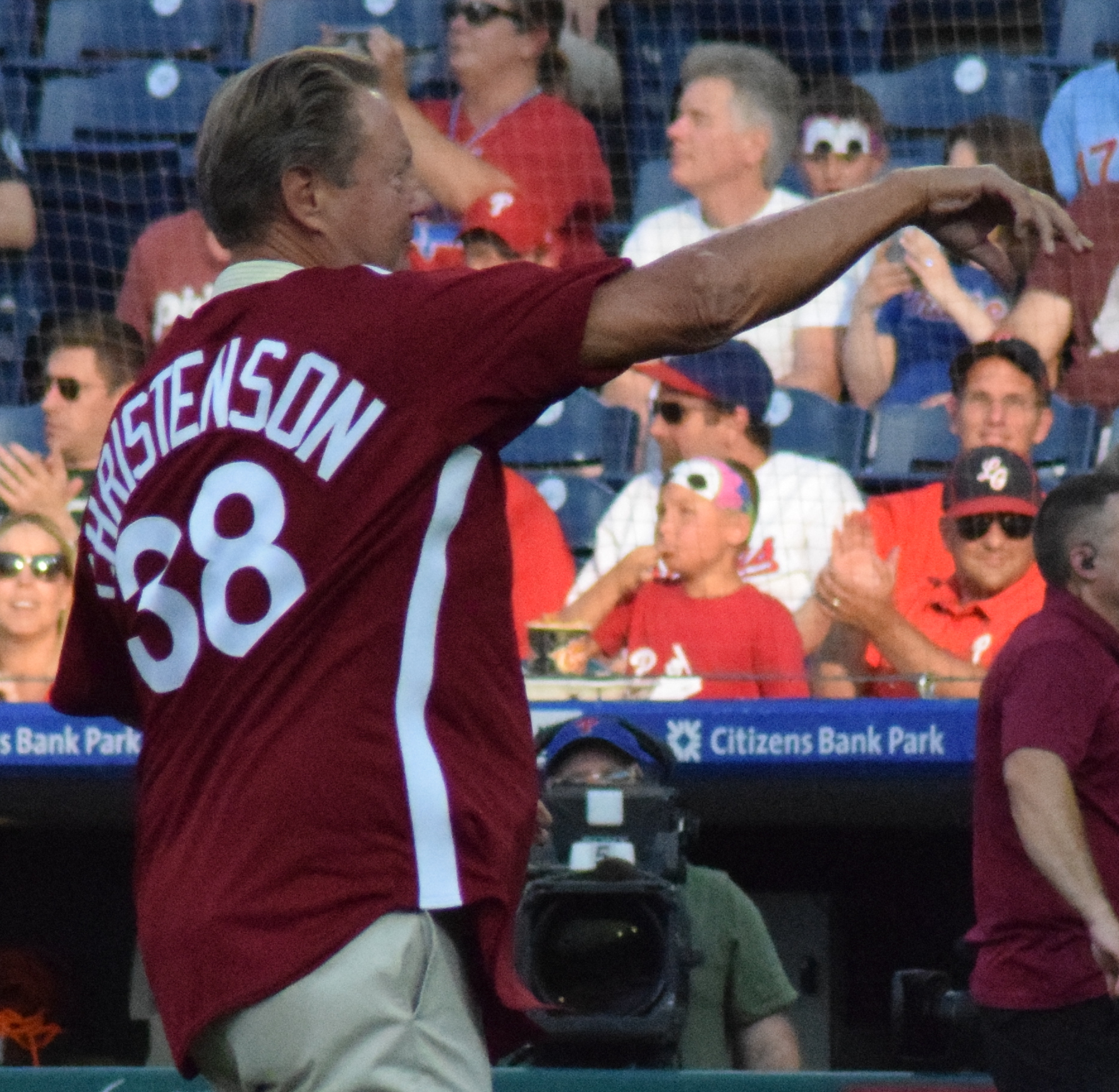 Larry Christenson throws out the first pitch before a 2019 game at Citizens Bank Park in Philadelphia